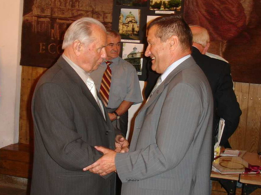 Colonel Jan Niewiński (left side) and Jan Skalski President of the Polish Eastern Borderlands World Congress. Czestochowa. 2008 VII 6.